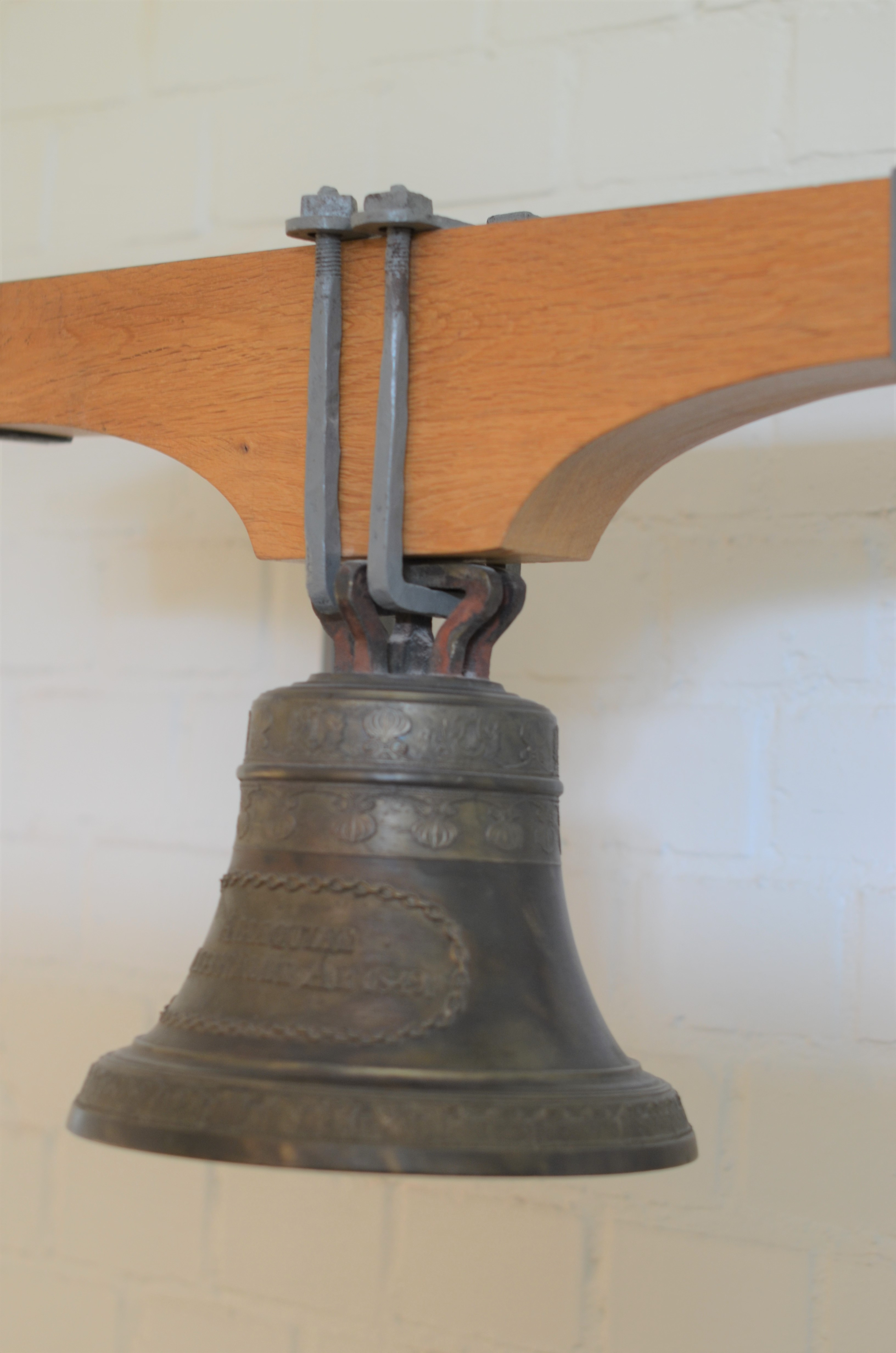 Bell of Allekvia courthouse, now located in Visby courthouse. Script: "Allequiae tingsställe 1849"